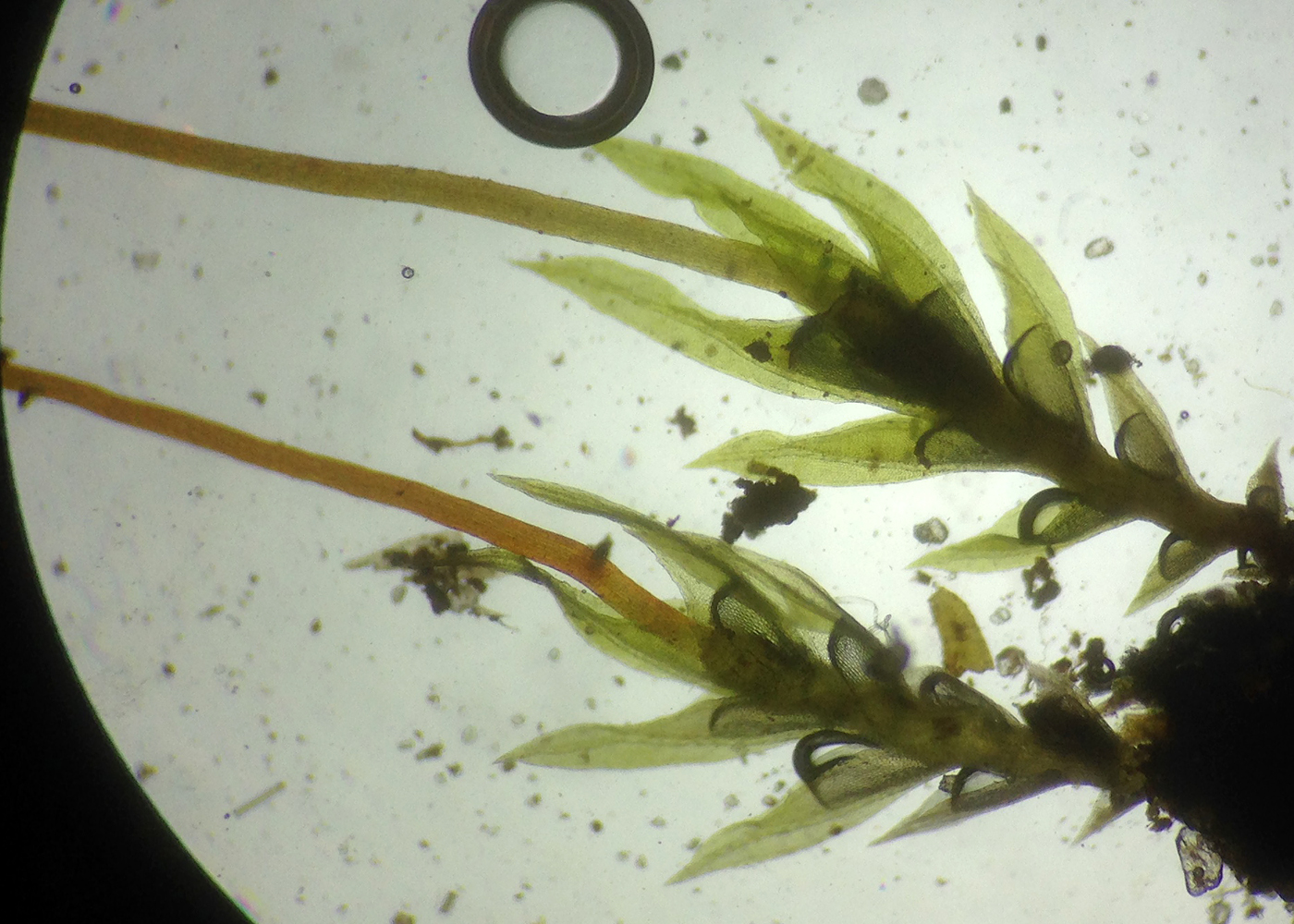 Fissidens curvatus - shoot, leaves